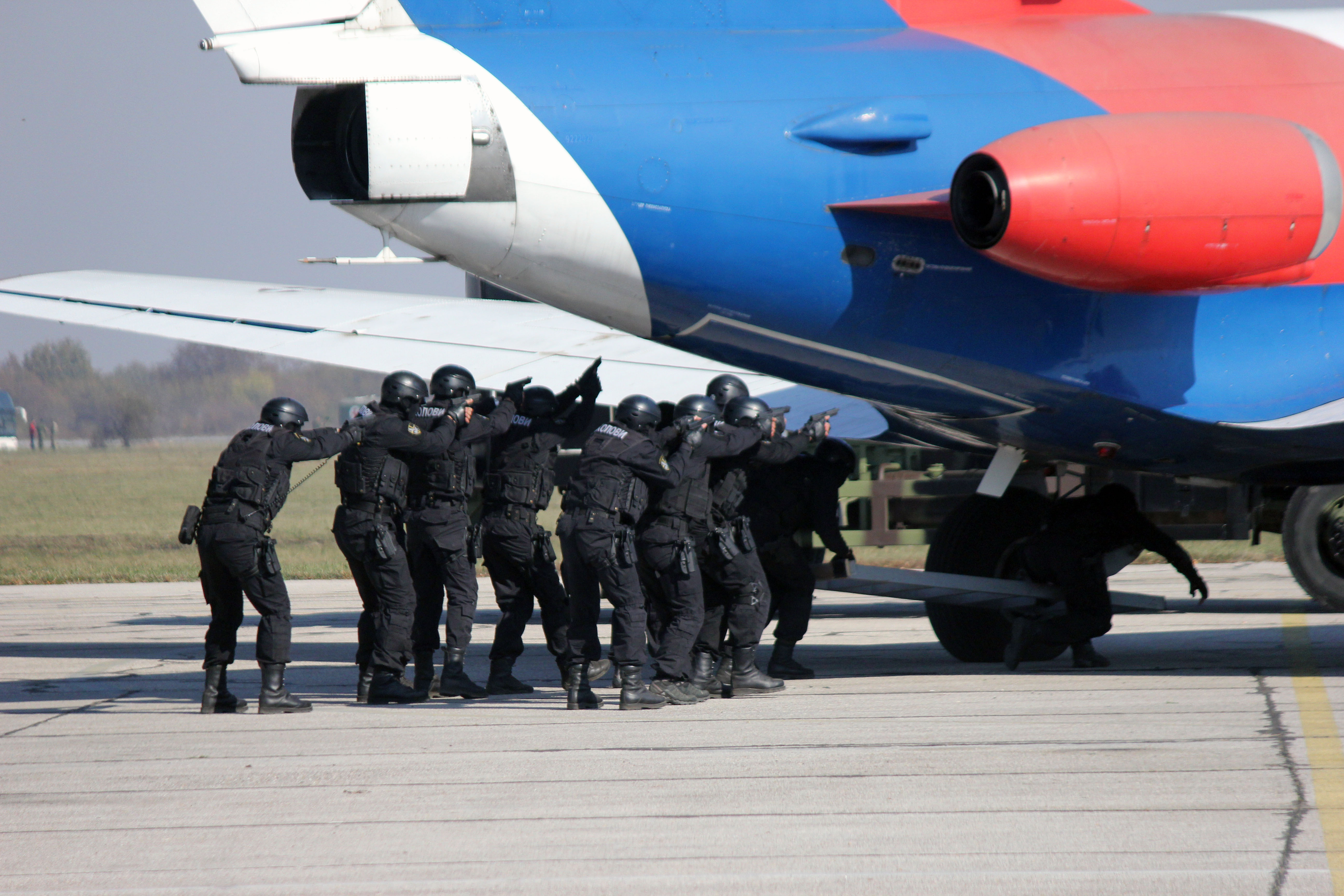 Members of of Serbian Armed Forces Counter-terrorist battalion "Sokolovi" (Hawks) at Batajnica Air Base during the Belgrade liberation day celebration and "Sloboda 2017" military exercise. Српски (ћирилица): Припадниици противтерористичког батаљона Соколови Војске Србије на аеродрому Батајница током војне вежбе Слобода 2017 у оквиру обележавања годишњице ослобођења Бегограда у 2. светском рату.